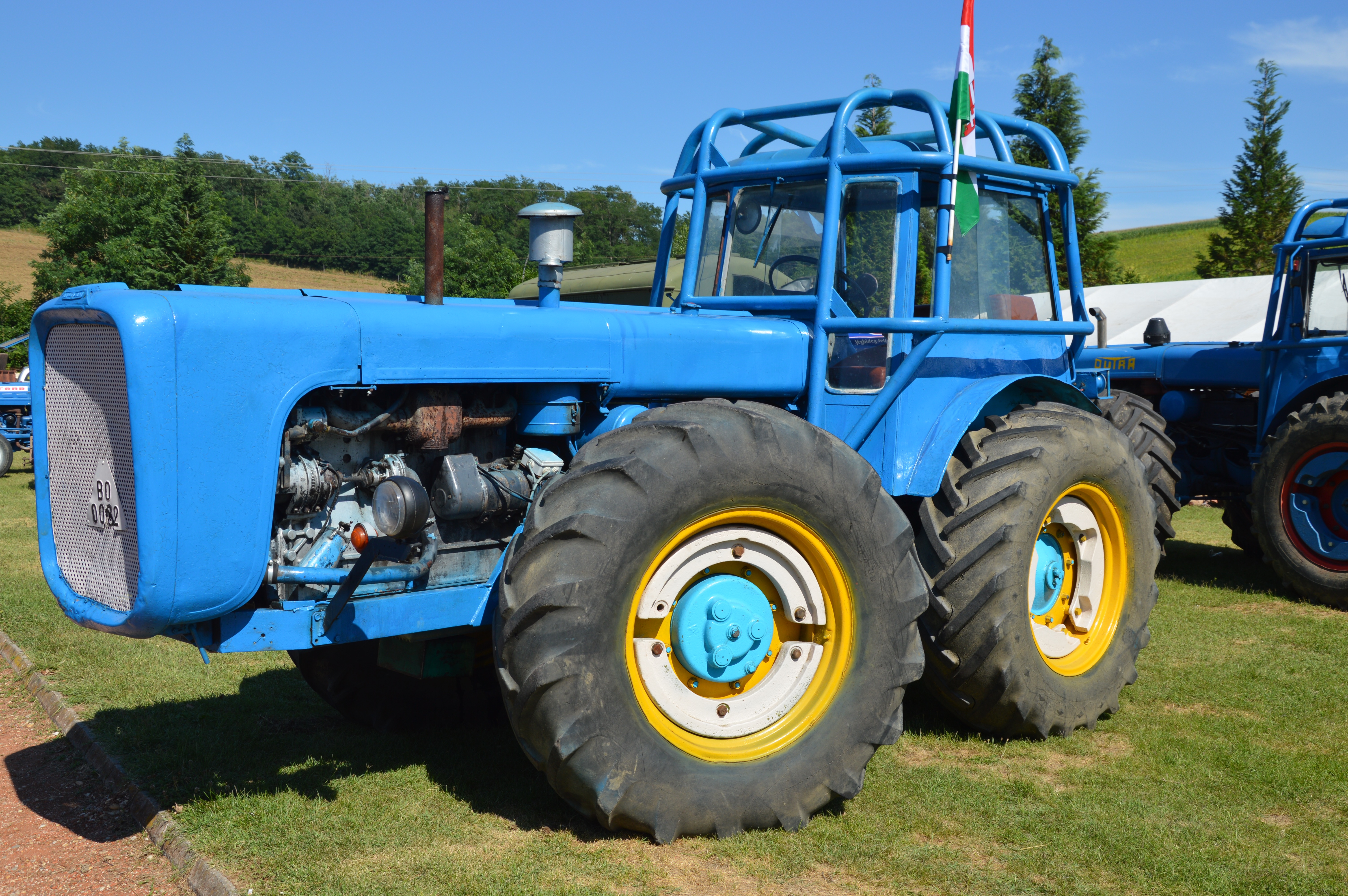 Dutra D4K-B Hungarian four-wheel drive tractor